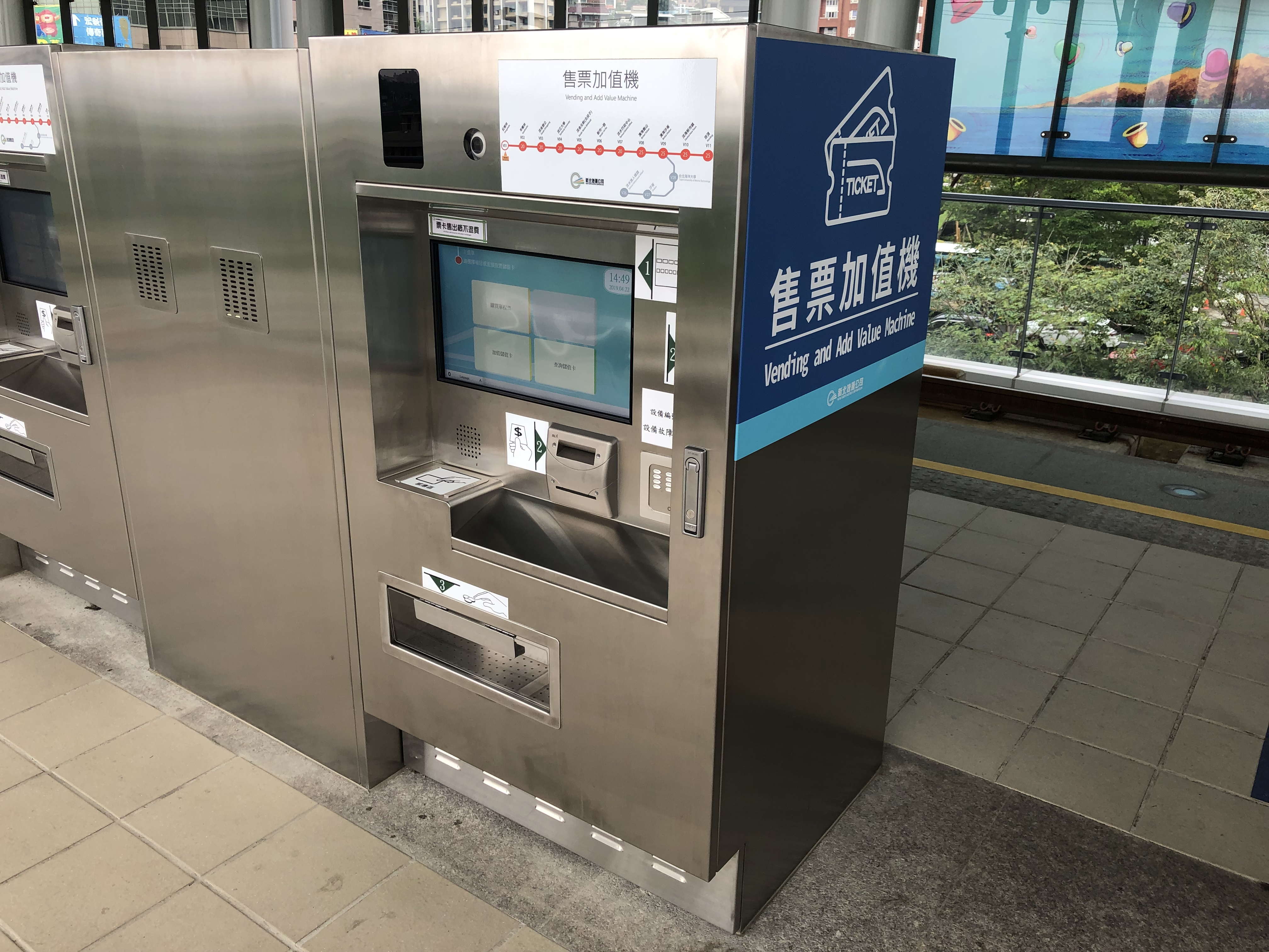 Ticket vending machine at Danhai LRT Hongshulin Station